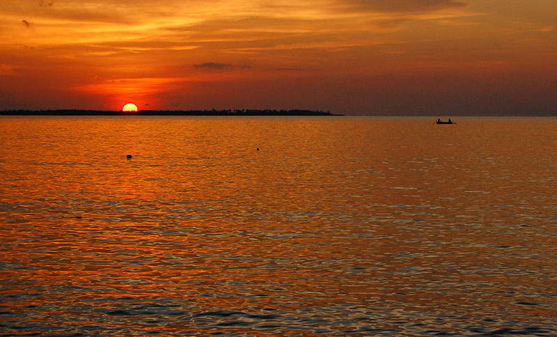 The Famous Laoang Sunset